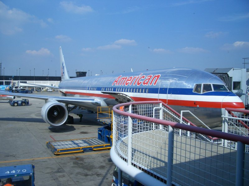 An American Airlines Boeing 767 at Chicago O'Hare International Airport Terminal 3